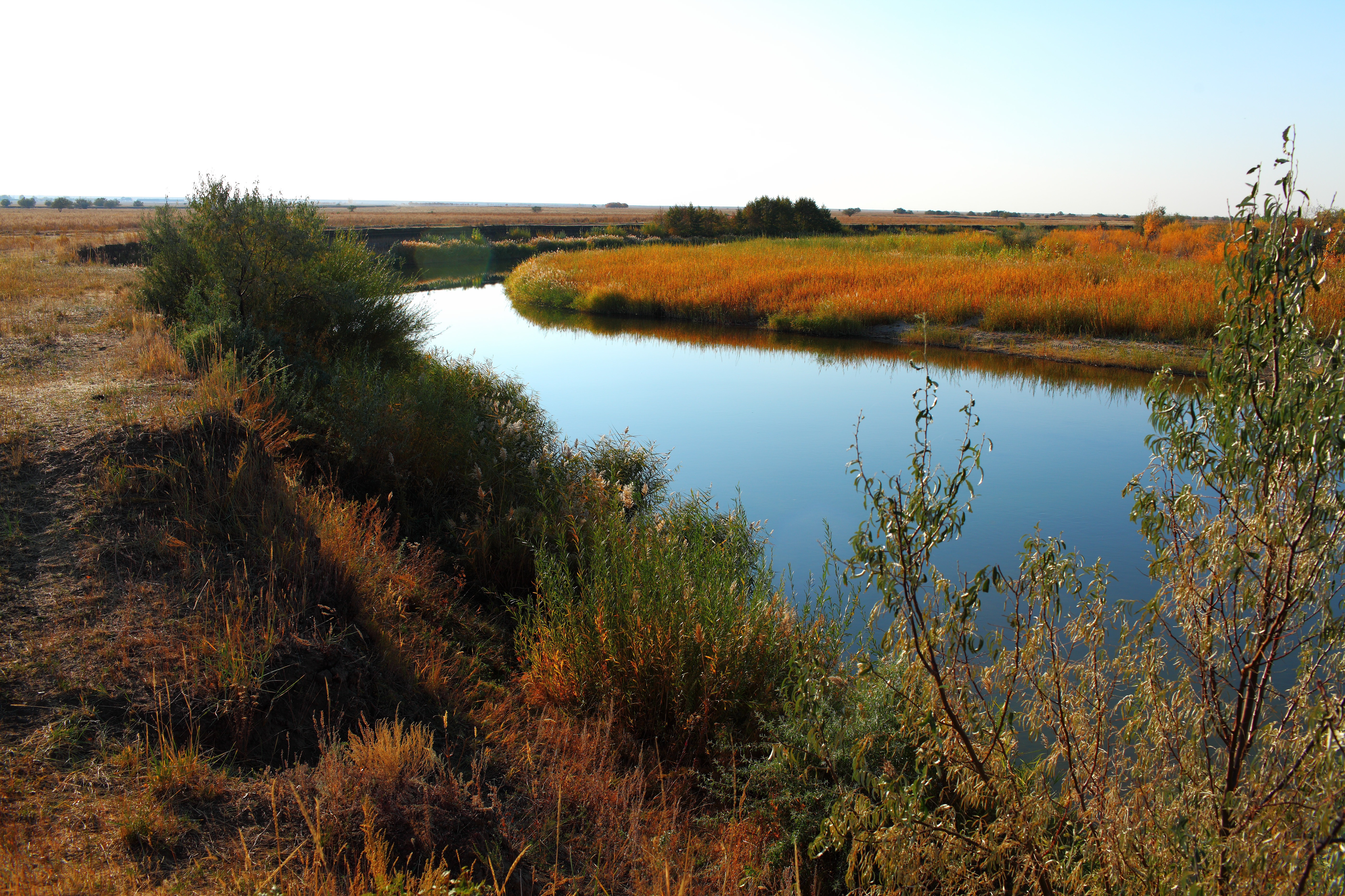 Ilek River